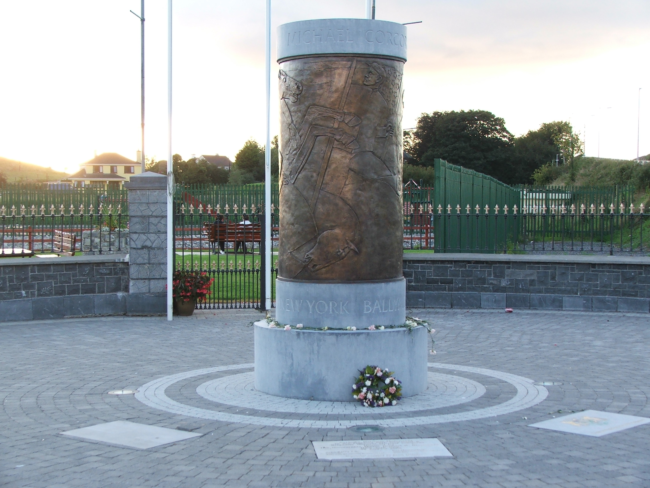 Fighting 69th Monument in Ballymote, Ballymote.